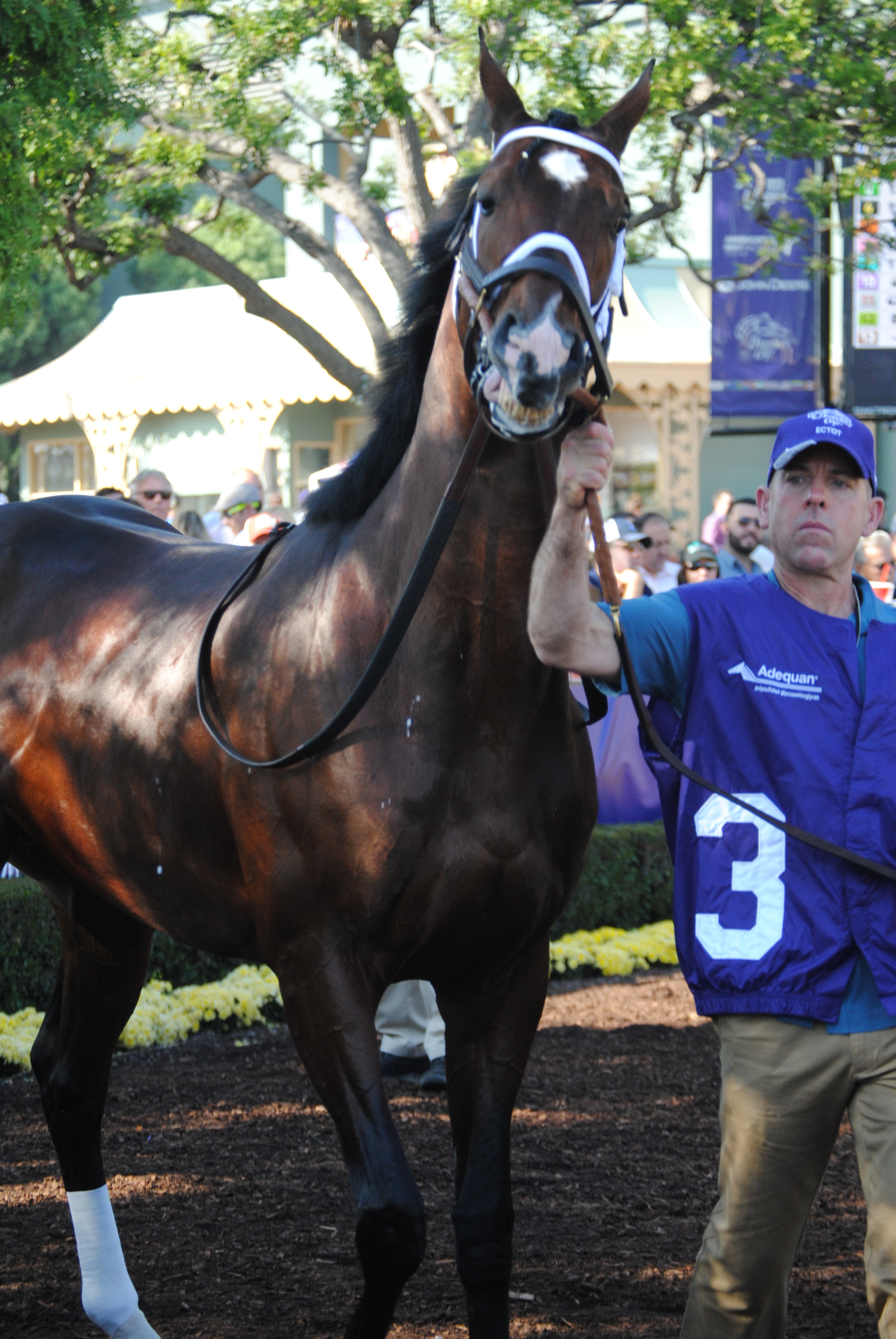 Ectot on his way to the saddling area